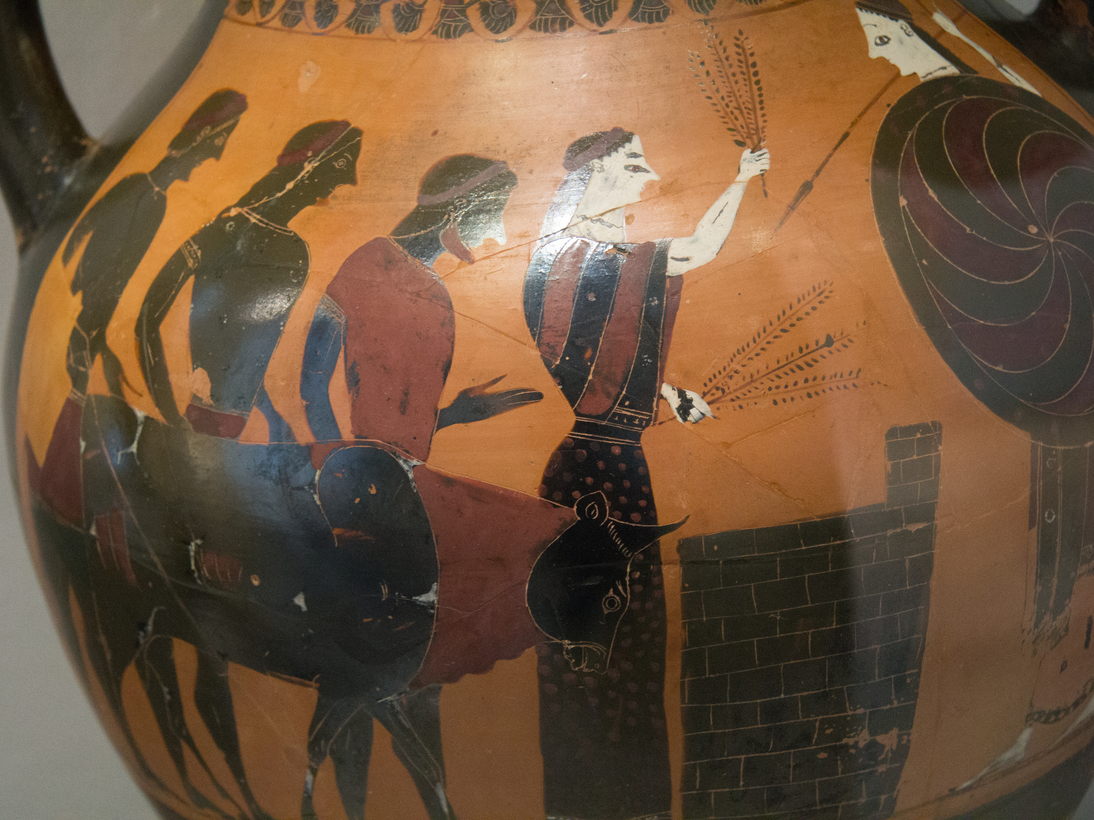 Attic black-figure amphora from Vulci (Italy), 550-540 BC. Painter of Berlin 1686. Sacrifice to Athena: A Bull is Lead to the Altar. Antikensammlung Berlin, Altes Museum, F 1686.